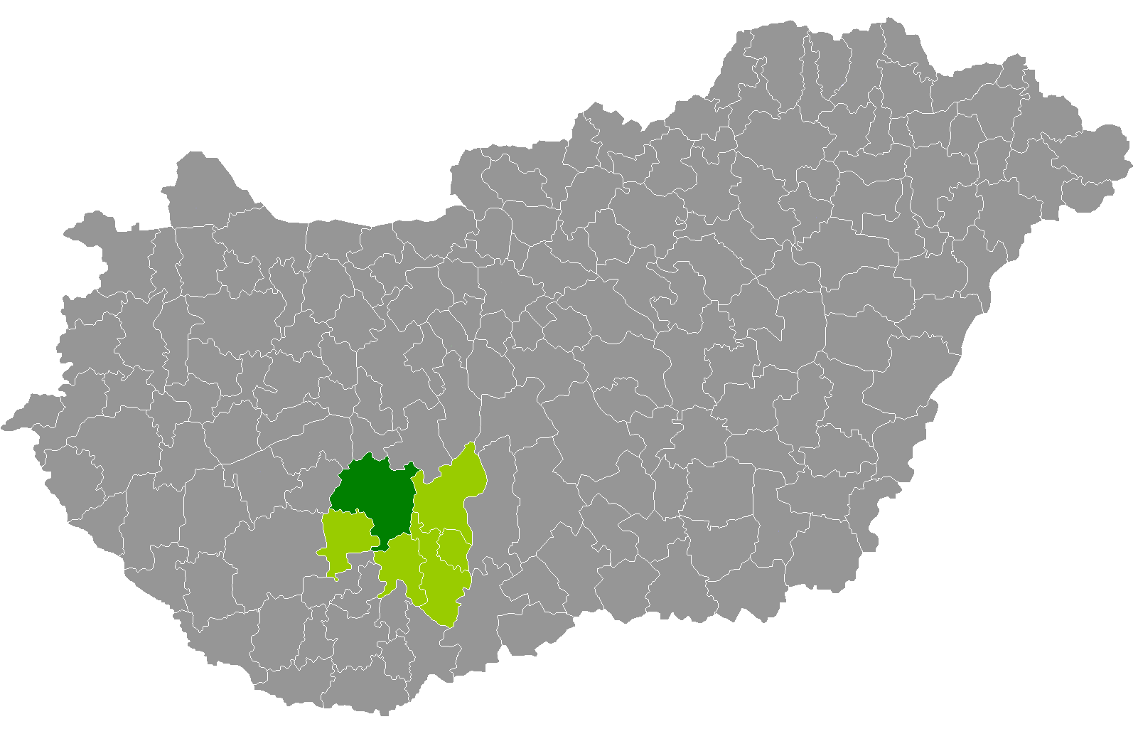 Location of Tamási District, Tolna, Hungary